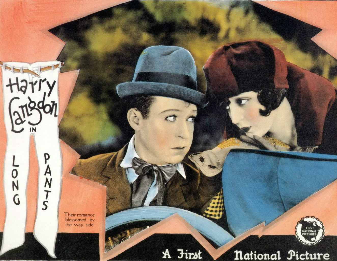 Lobby card for the American comedy film Long Pants (1927). There are no copyright markings pertaining to the image as can be seen in the links above. At top is The Ullman Mfg. Co., NY. and Made in USA.